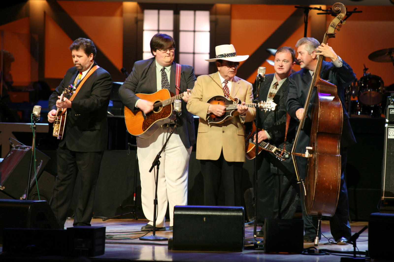 Bobby Osborne & The Rocky Top X-Press performing at the Grand Ole Opry in 2007